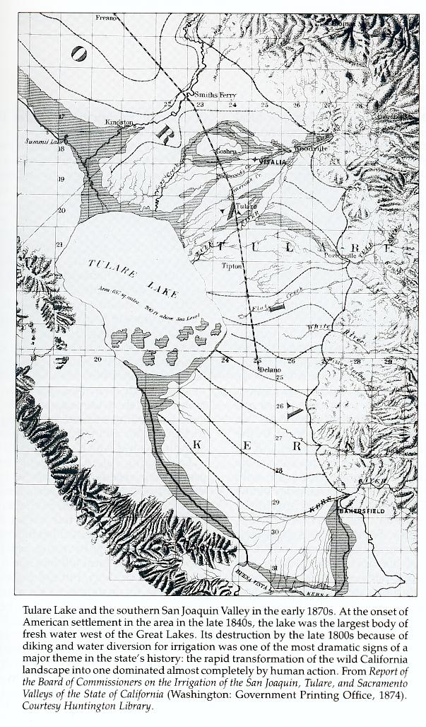 1874 map of the former Tulare Lake and its tributaries — of the 19th century San Joaquin Valley, central California. It was the largest fresh water lake west of the Great Lakes in North America, until diversions and draining destroyed it by the early 1900s. Site is in present day Kings County.